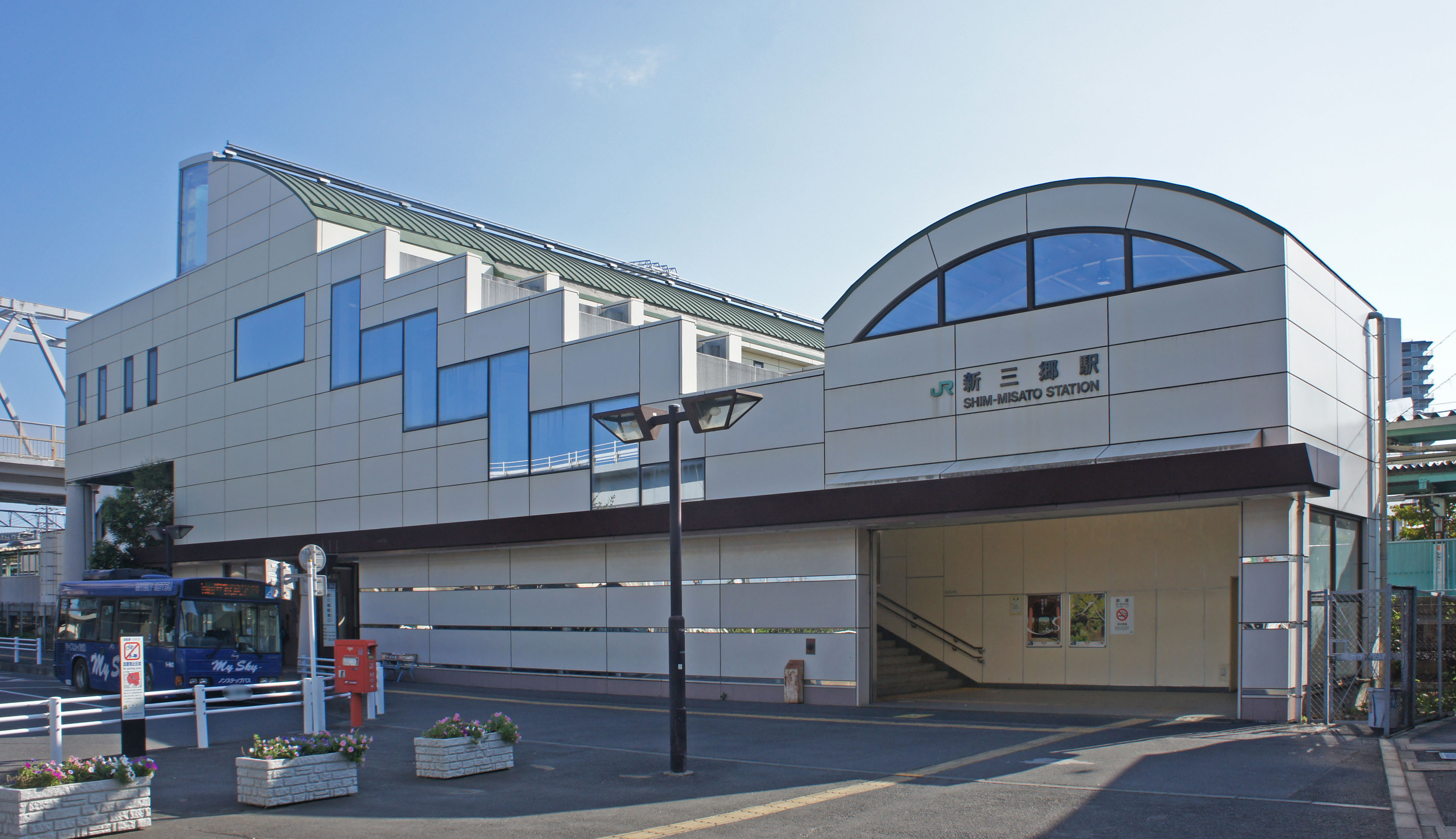 East Exit of JR Musashino-Line Shin-Misato Station